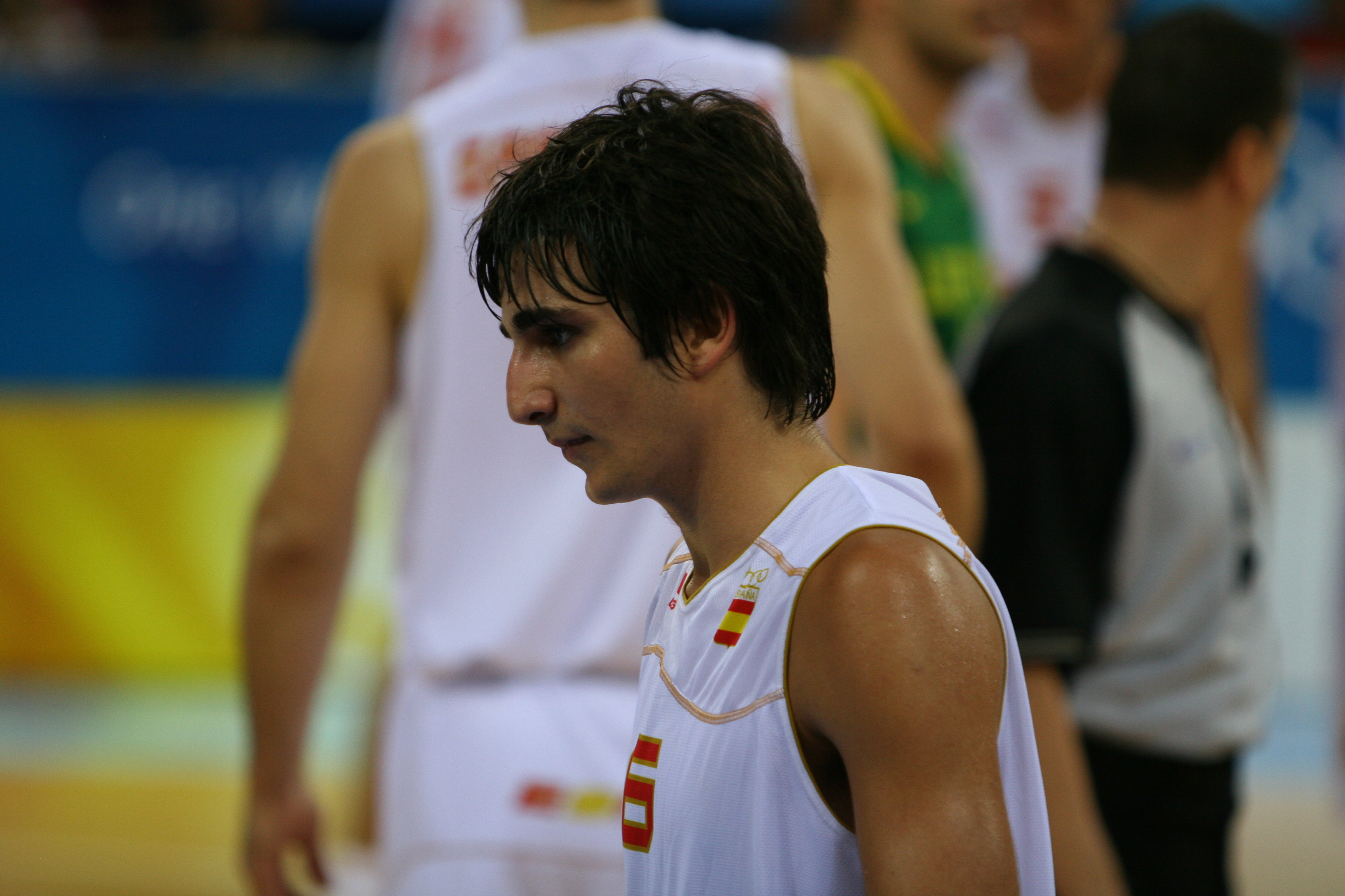 Ricky Rubio of Spain, Beijing Olympiad